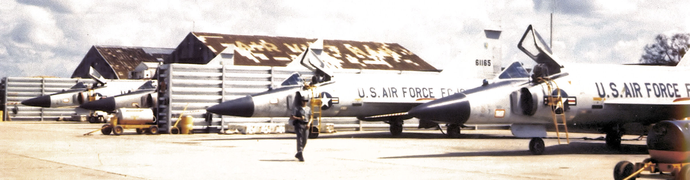 509th Fighter-Interceptor Squadron F-102s Tan Son Nhut Air Base, 1962. In March of 1962 F-102s of the 509th FIS at Clark AB, Philippines, were sent on Temporary Duty (TDY) to Tan Son Nhut Air Base, RVN to provide air defense of Saigon